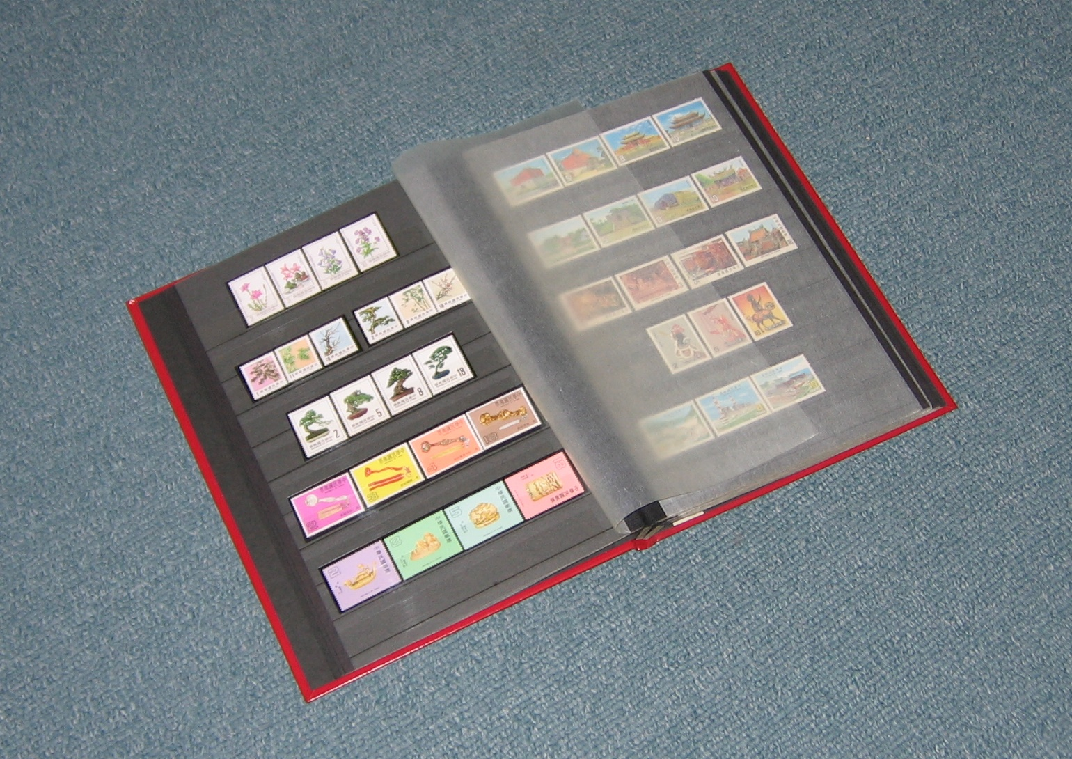 Stamp album, stockbook type.